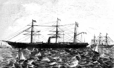 The image of the Hamburg America Line steamship, SS Austria